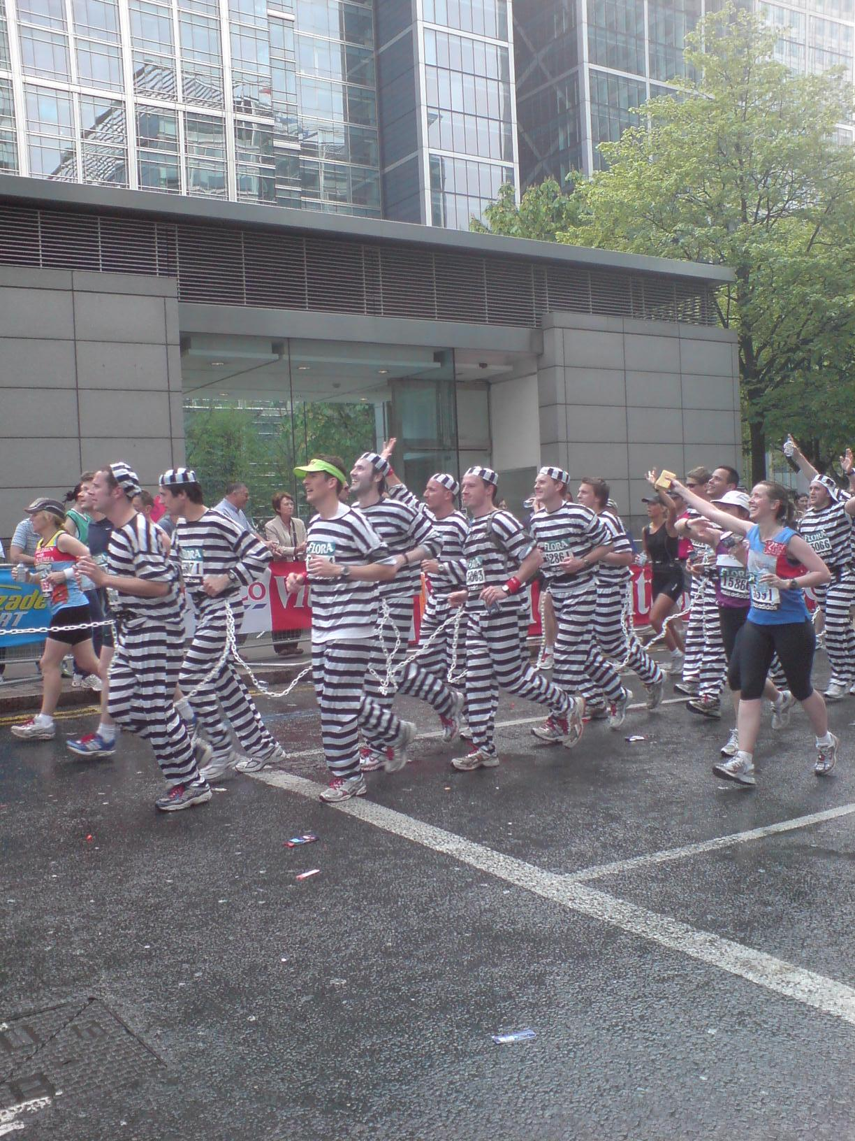 Fun runners pass outside the HSBC Tower, in Canary Wharf.